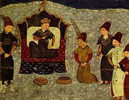 Batu Khan on the throne